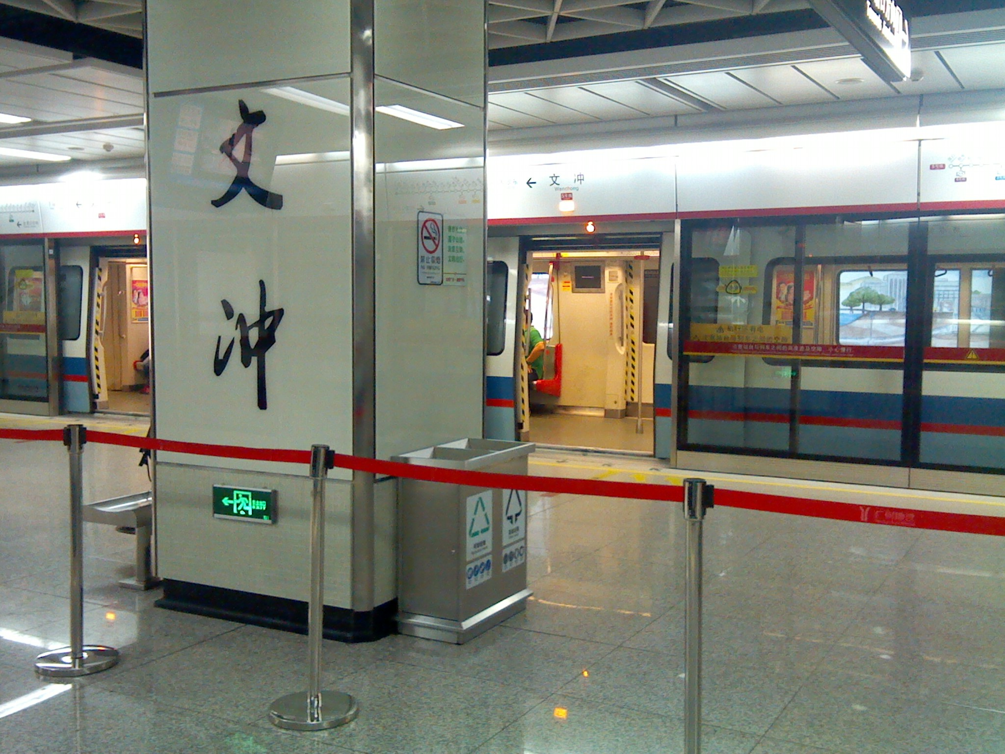 文冲站月台